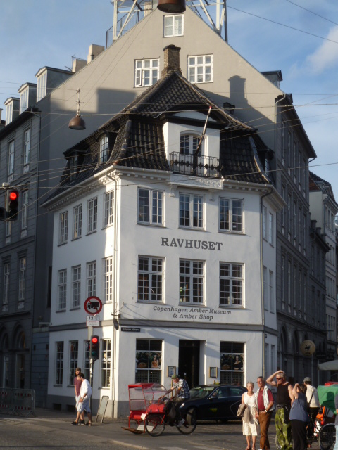 The shop and museum Ravhuset at Nyhavn in Copenhagen, Denmark